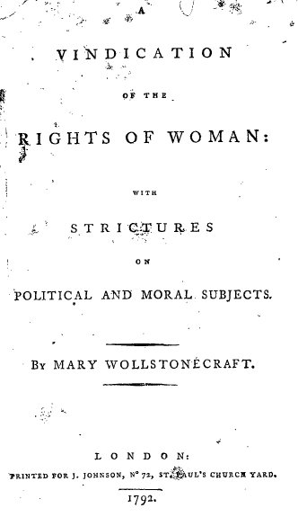 Title page from the first edition of Mary Wollstonecraft's Vindication of the Rights of Woman